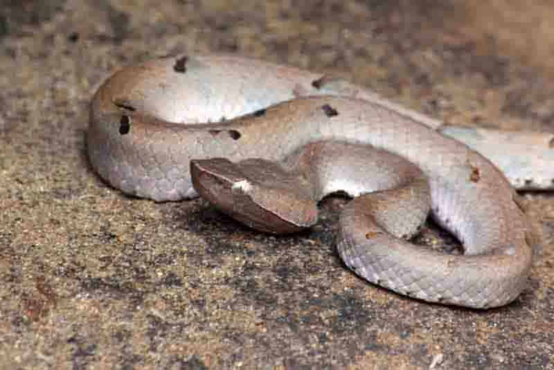 Hump nosed pit viper at Agastyavanm Biosphere Reserve Trivandrum